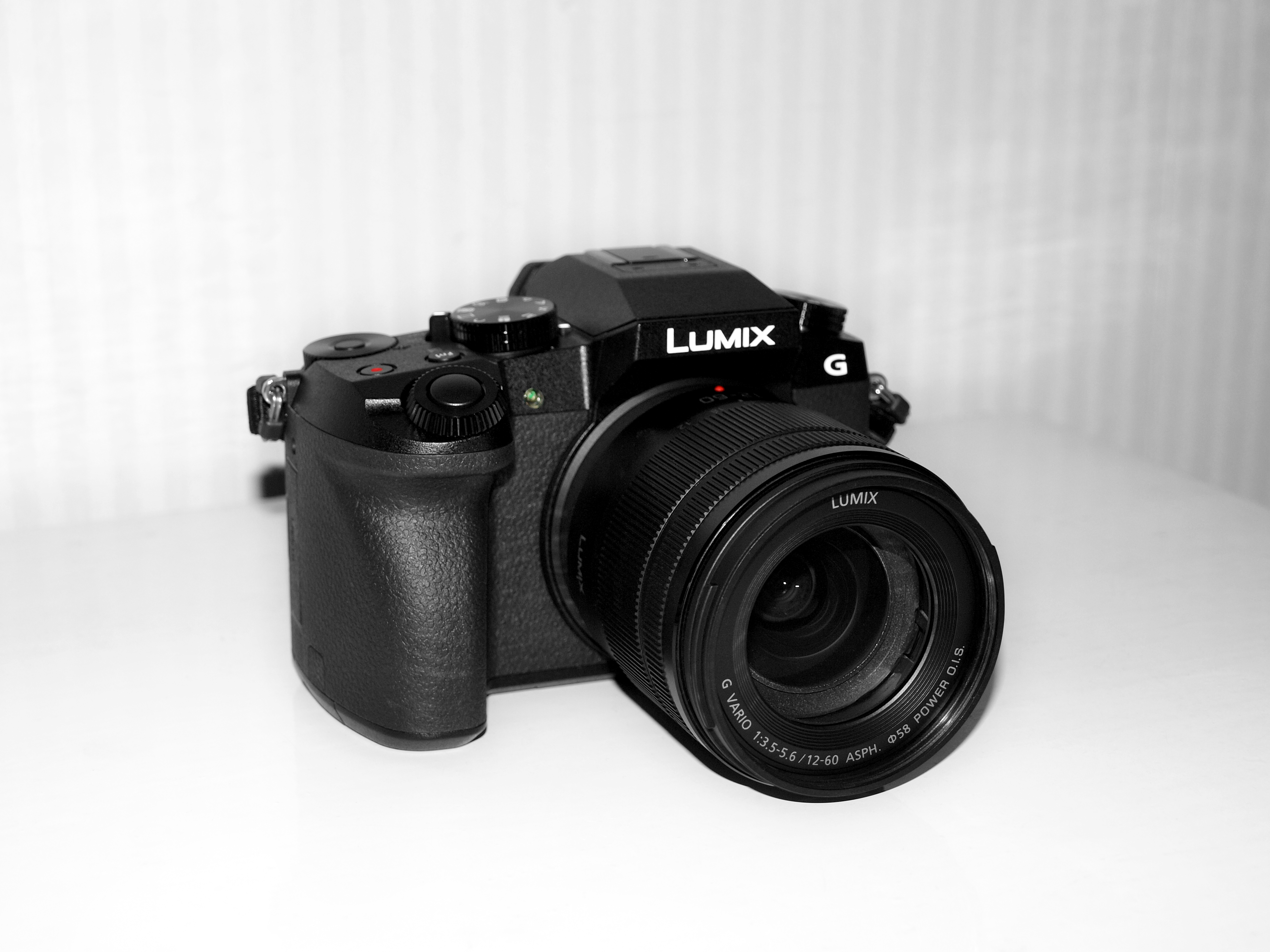 Panasonic Lumix DMC-G7M -camera.